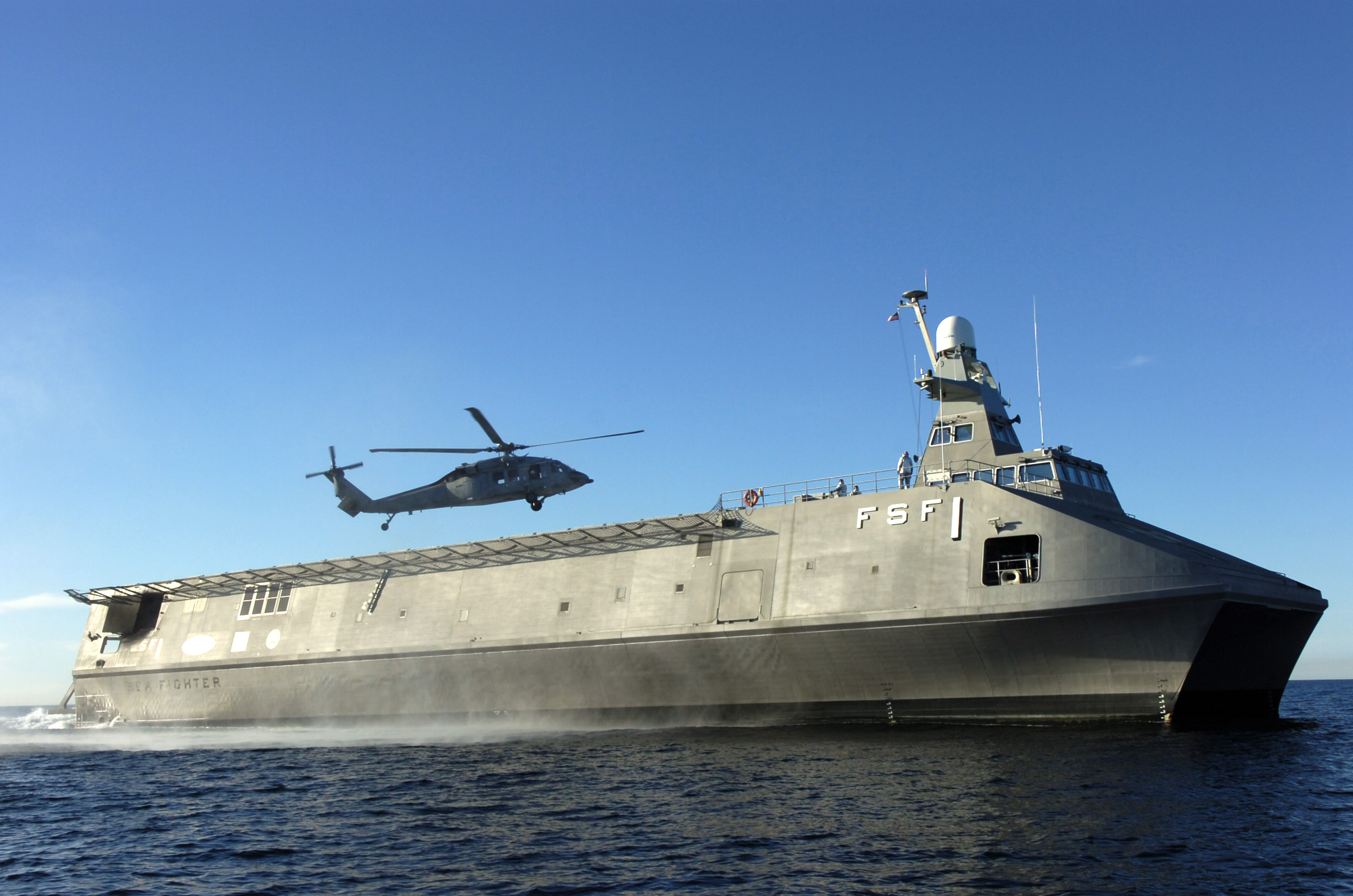 Pacific Ocean (Dec. 9, 2005) – An MH-60S Seahawk helicopter, flown by aircrew assigned to Naval Rotary Wing (HX) 21, prepares to land aboard Sea Fighter (FSF-1) during flight deck certification off the coast of San Diego, Calif. Funded by the Office of Naval Research, Sea Fighter is a high-speed aluminum catamaran that will test a variety of technologies, which will allow the Navy to operate more effectively in littoral or near-shore waters.